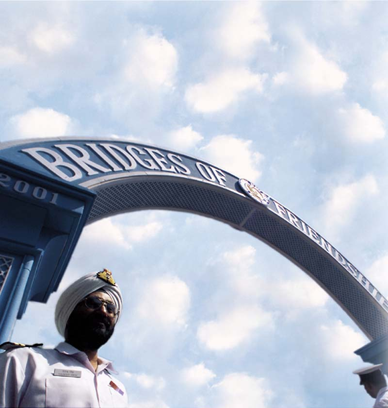 An Indian Navy officer at the gate to the naval base at Mumbai, India, where the sign Bridges of Friendship � welcomes participants from 19 countries to the International Fleet Review.